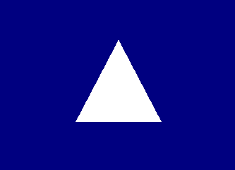 IV Corps, Army of the Potomac, 2nd Division Badge